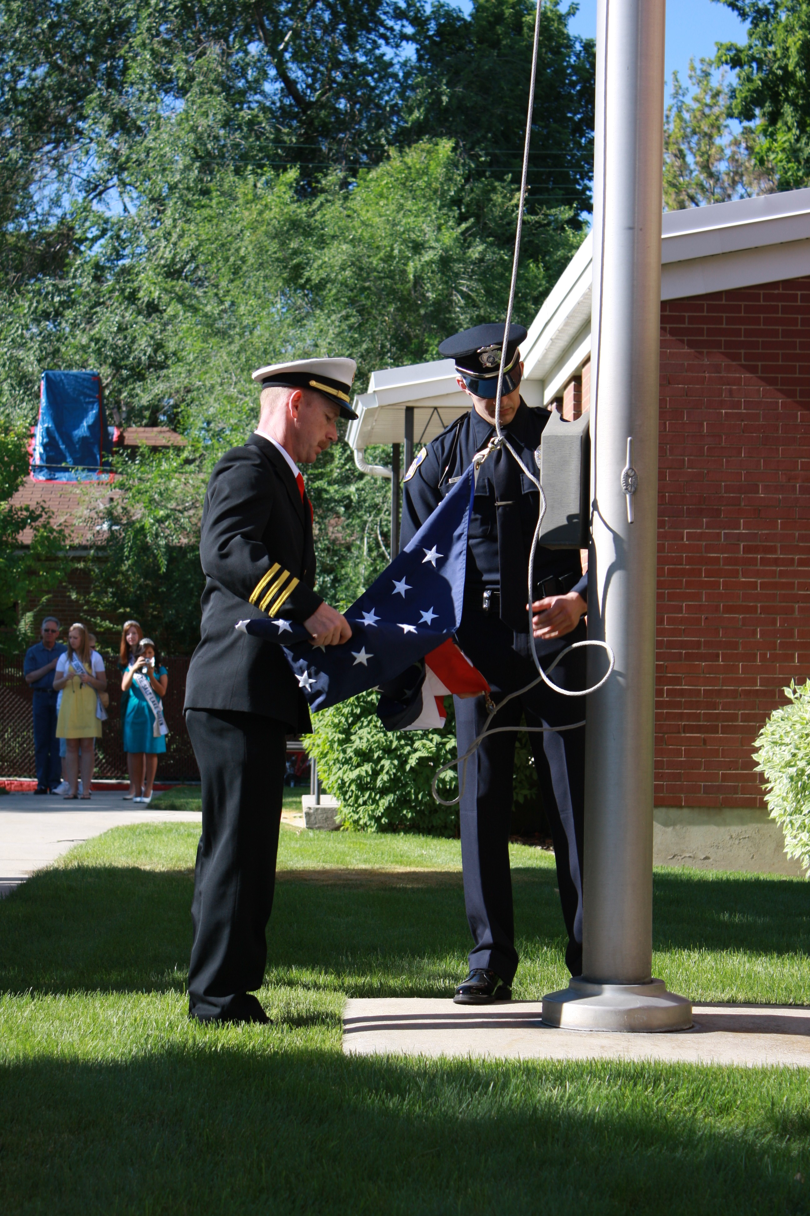 The Police and Fire honor guard hoisting the American flag at a flag ceremony on July 4th 2010 in South Salt Lake City, UT